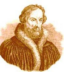 Johann Arndt (1555–1621), German Lutheran theologian, born at Ballenstedt, in Anhalt.